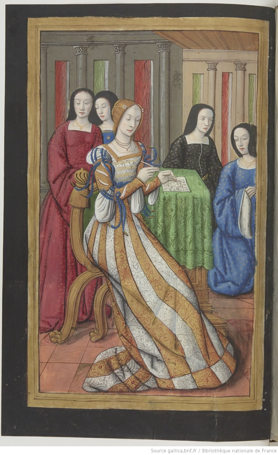 Phyllis, daughter of a Thracian king.